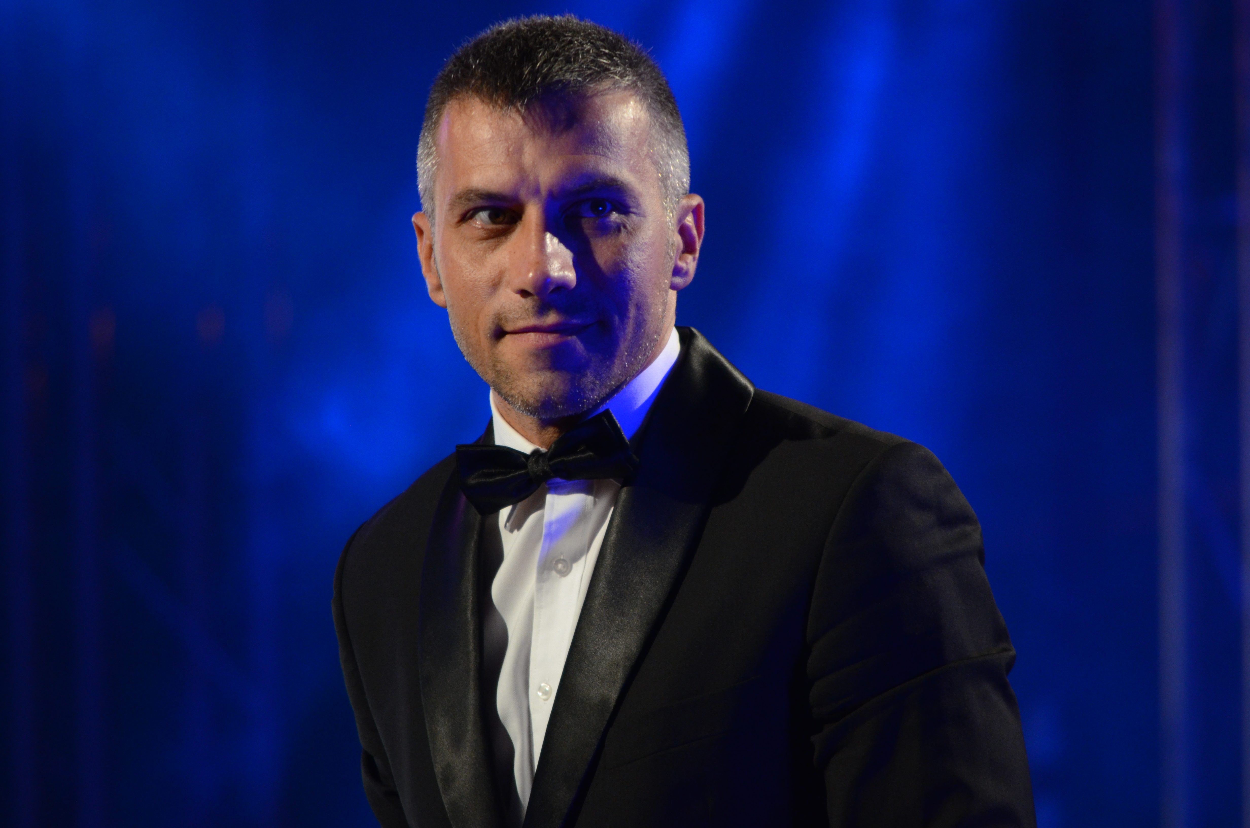 Romanian conductor Tiberiu Soare